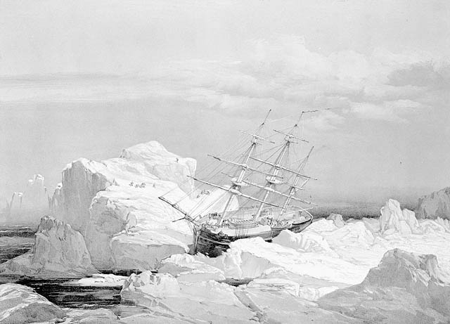 Critical position of HMS Investigator on the north coast of Baring Island, Northwest Territories